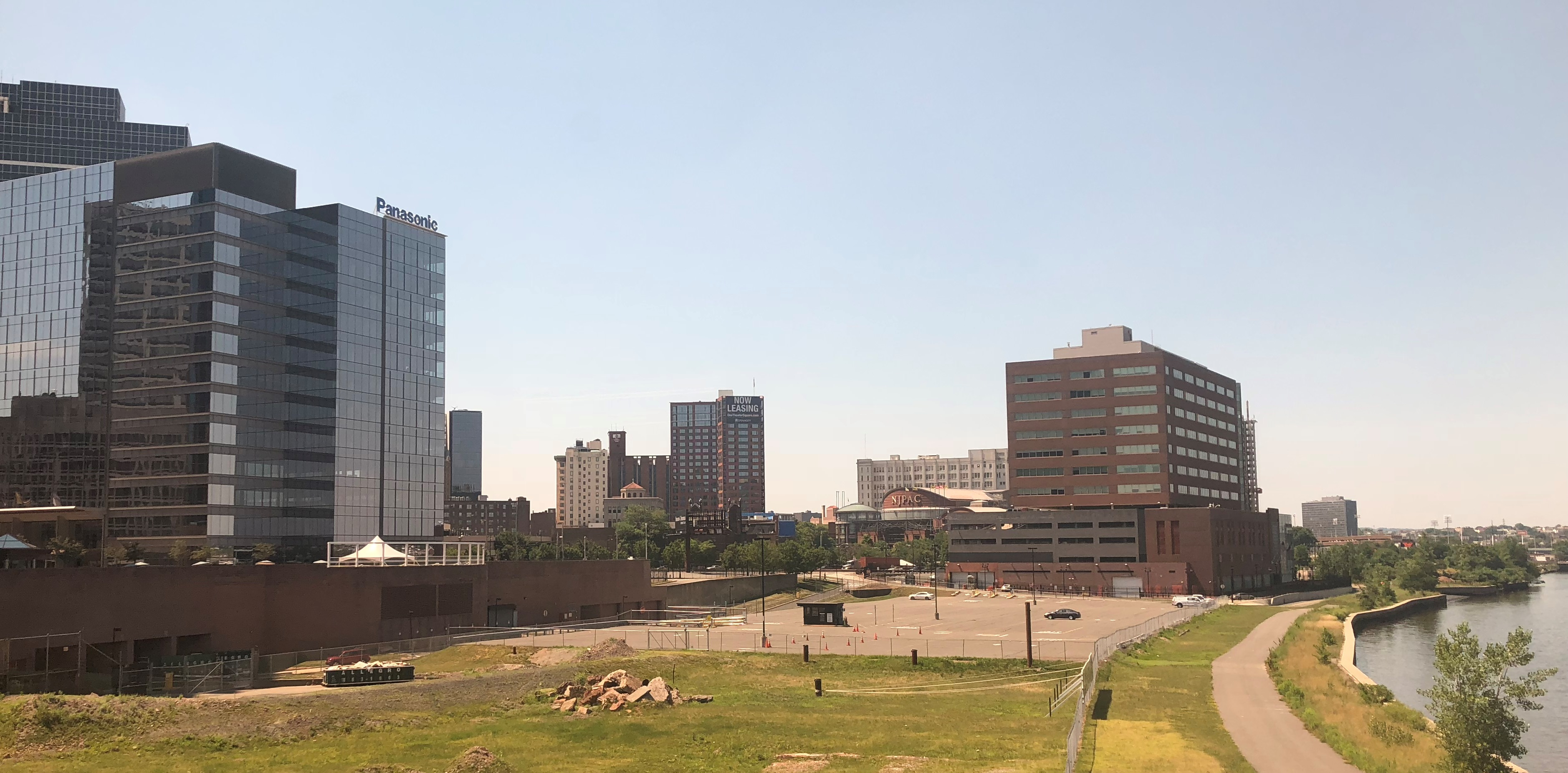 Passaic River in dowtown Newark, New Jersey. Panasonic office building to the left. The brown office building belongs to the FBI.